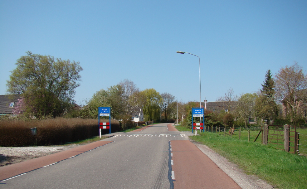 Asch, Netherlands